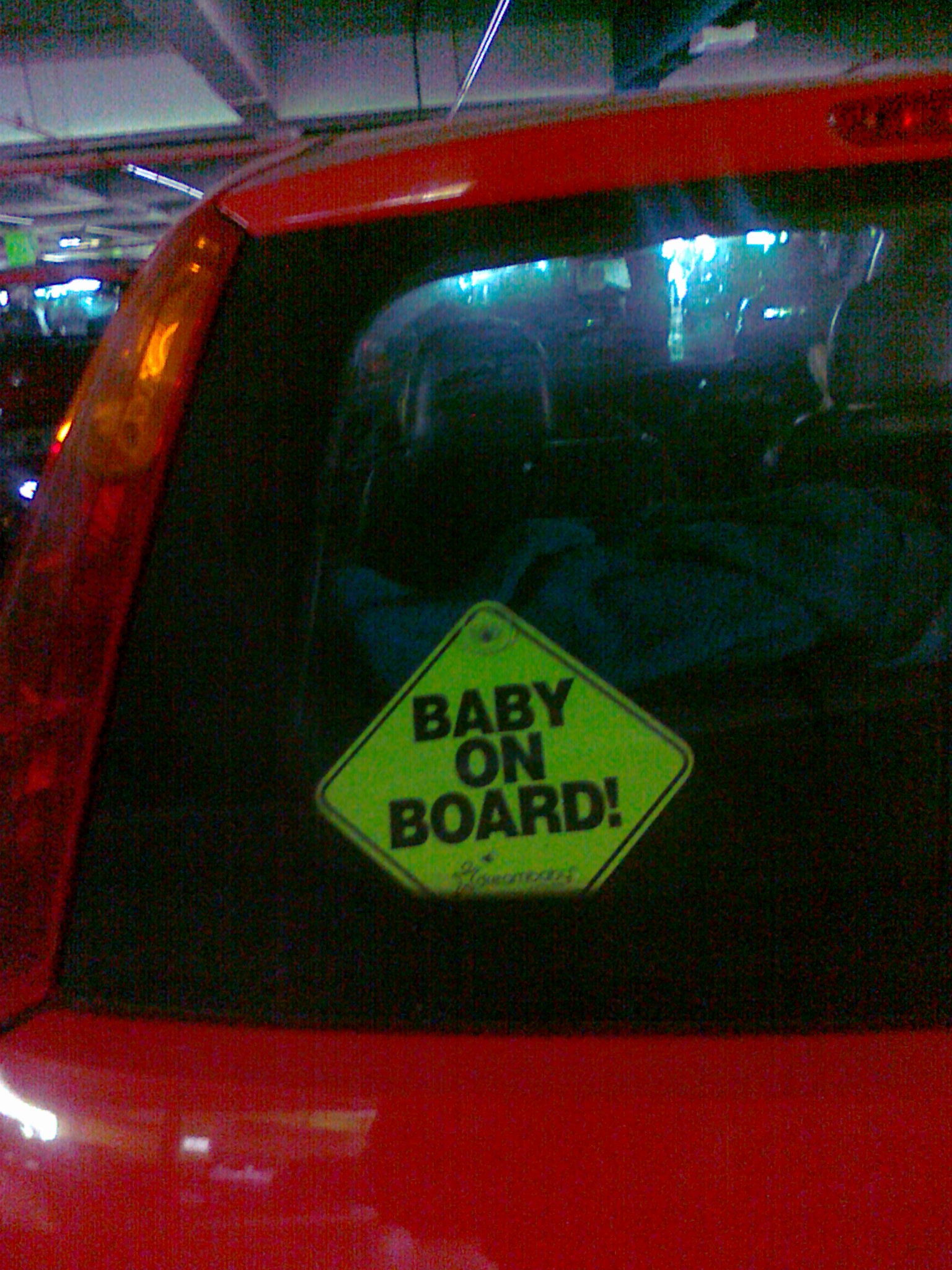 Baby on board sticker on a car